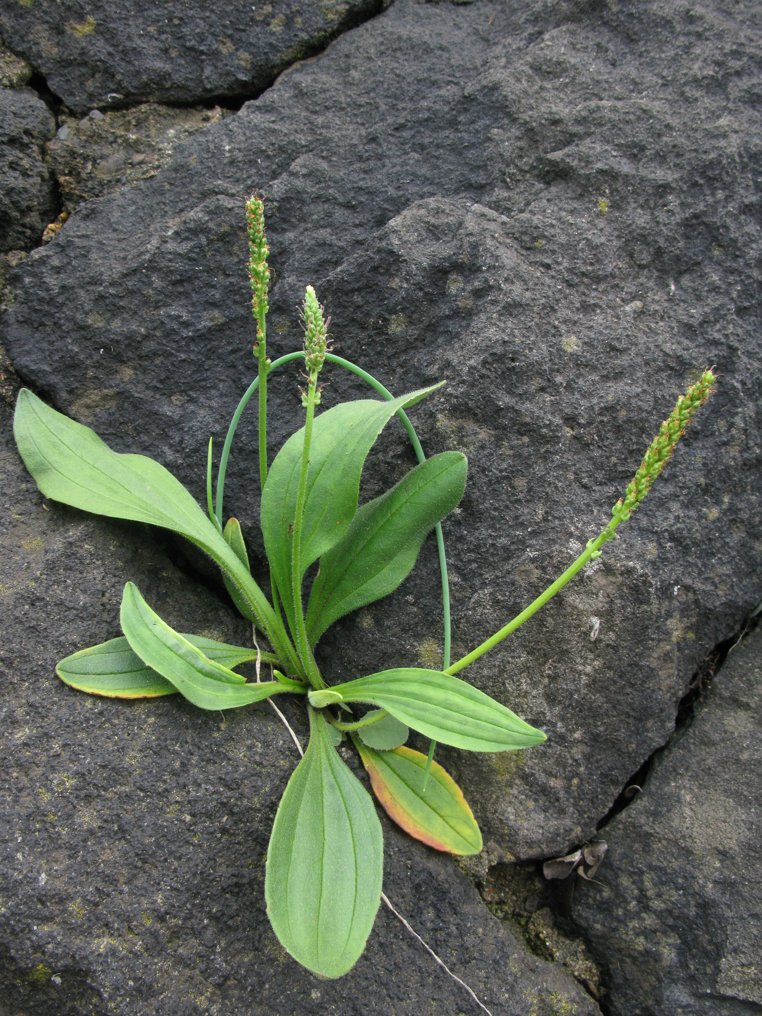 Plantago camtschatica, Shōnai area, Yamagata pref., Japan